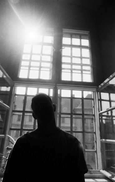 Juvenile prison in Ebrach (Germany)